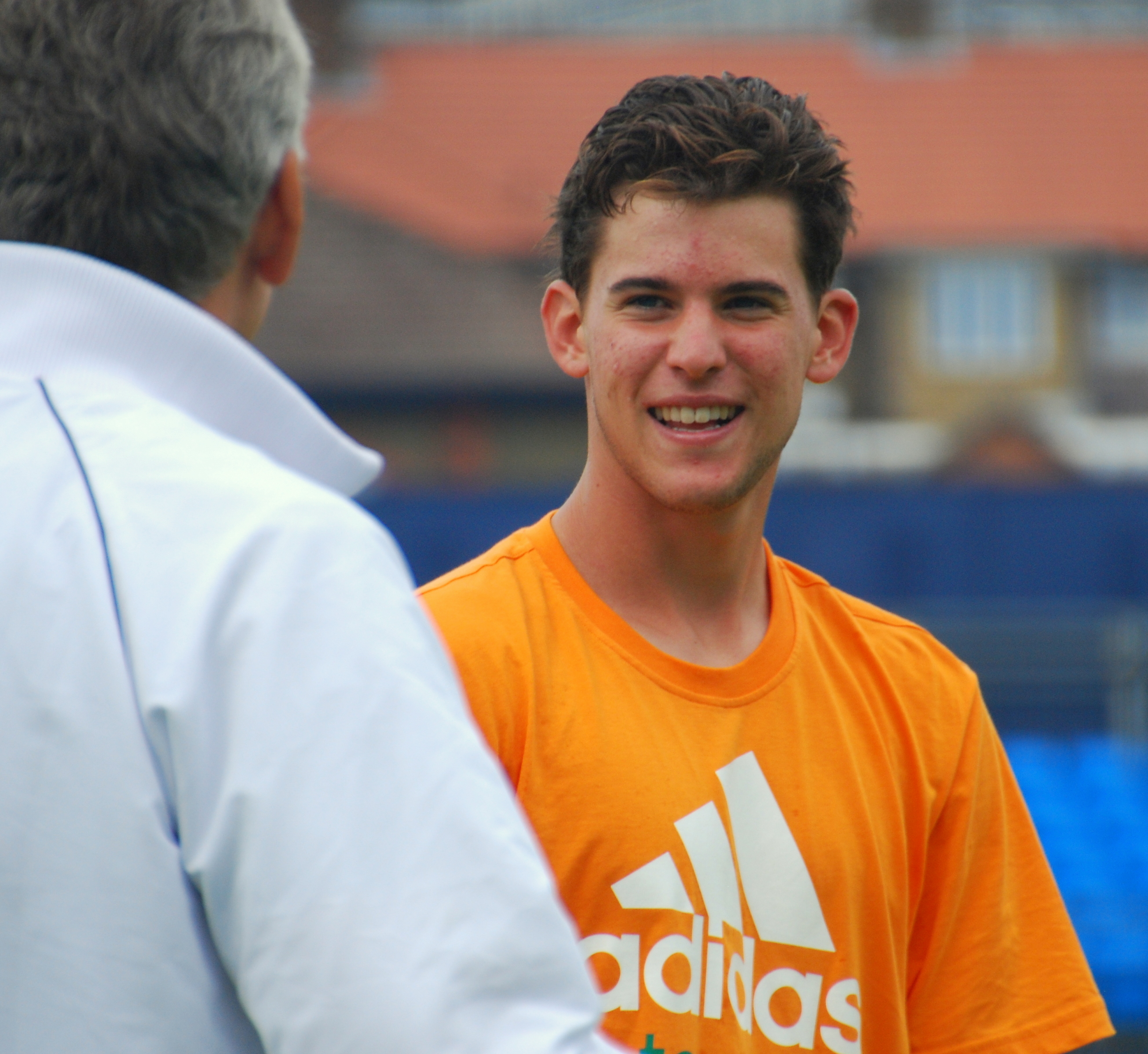 Dominic Thiem